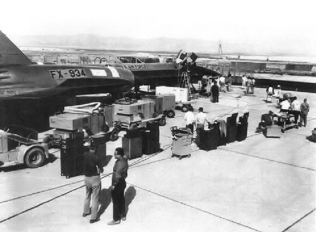 First YF-12 Prototype Aircraft, Groom Lake Nevada, 1960